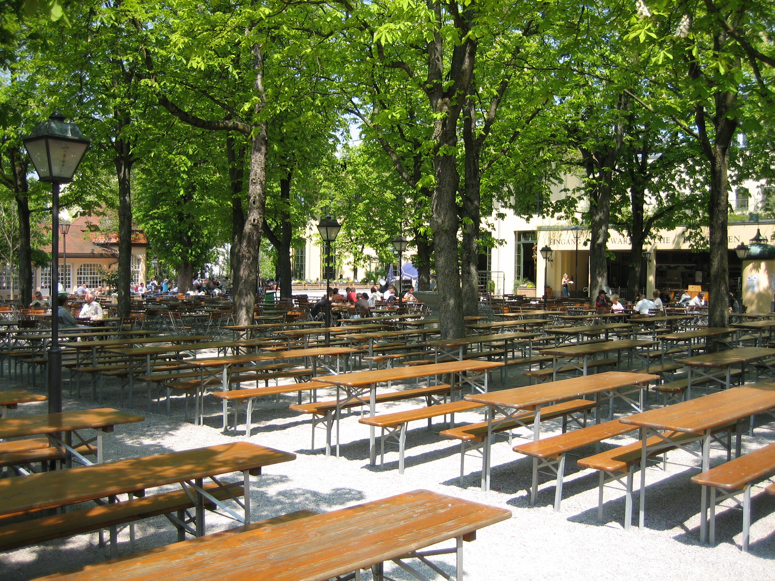 Beer garden of the inn Paulaner am Nockherberg in Munich, looking in the direction of the inn's main building